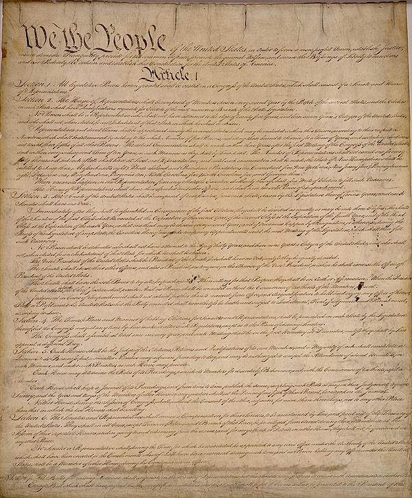 First page of Constitution of the United States.